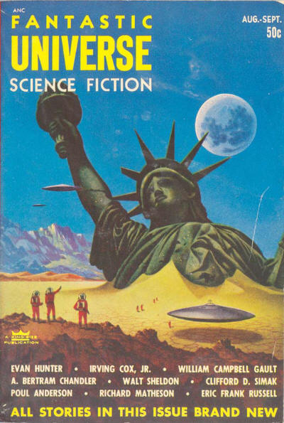 Cover of Fantastic Universe, August-September 1953